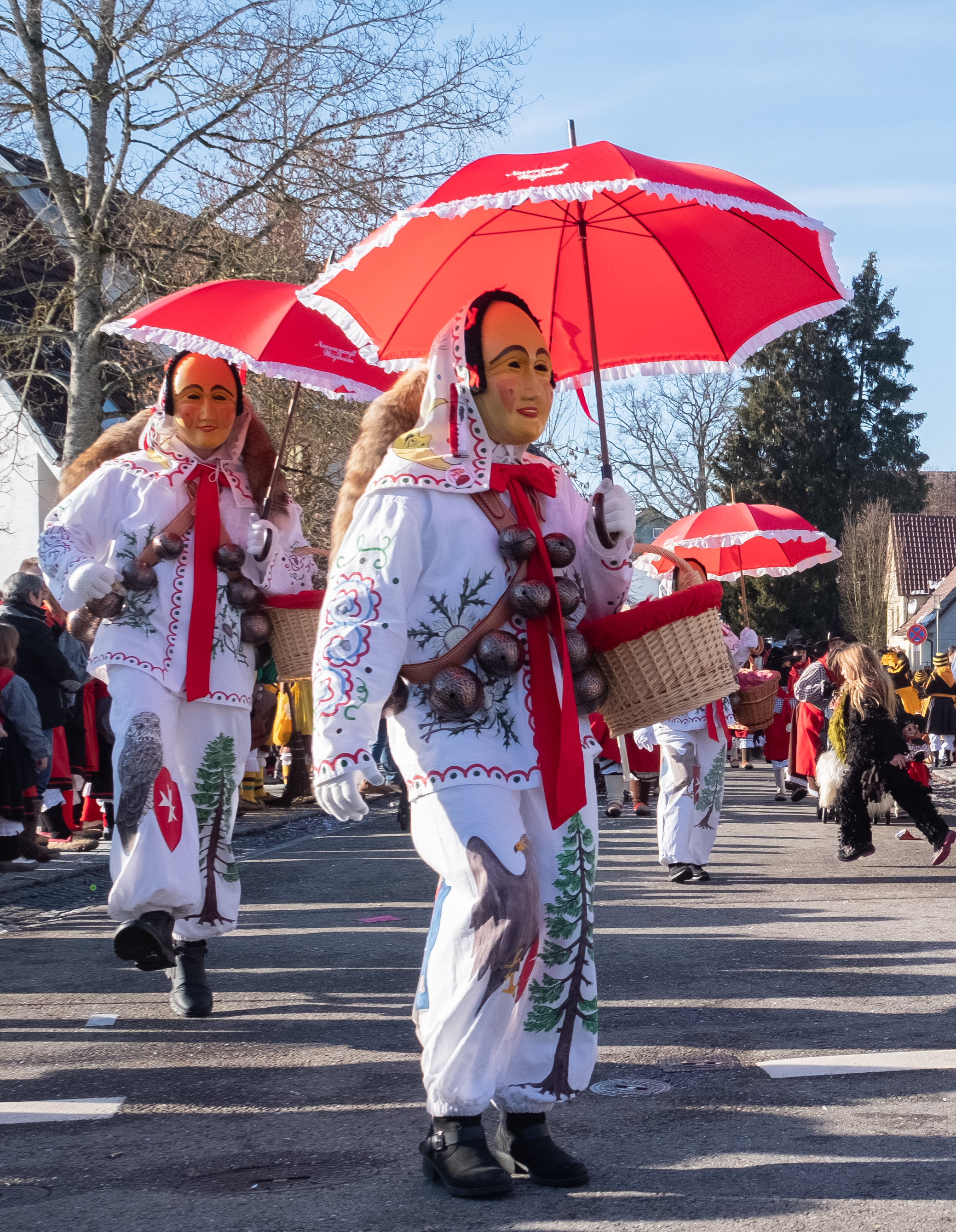 Carnival figure Wiegemer Hansel, Weigheim, Villingen-Schwenningen, district Schwarzwald-Baar-Kreis, Baden-Württemberg, Germany